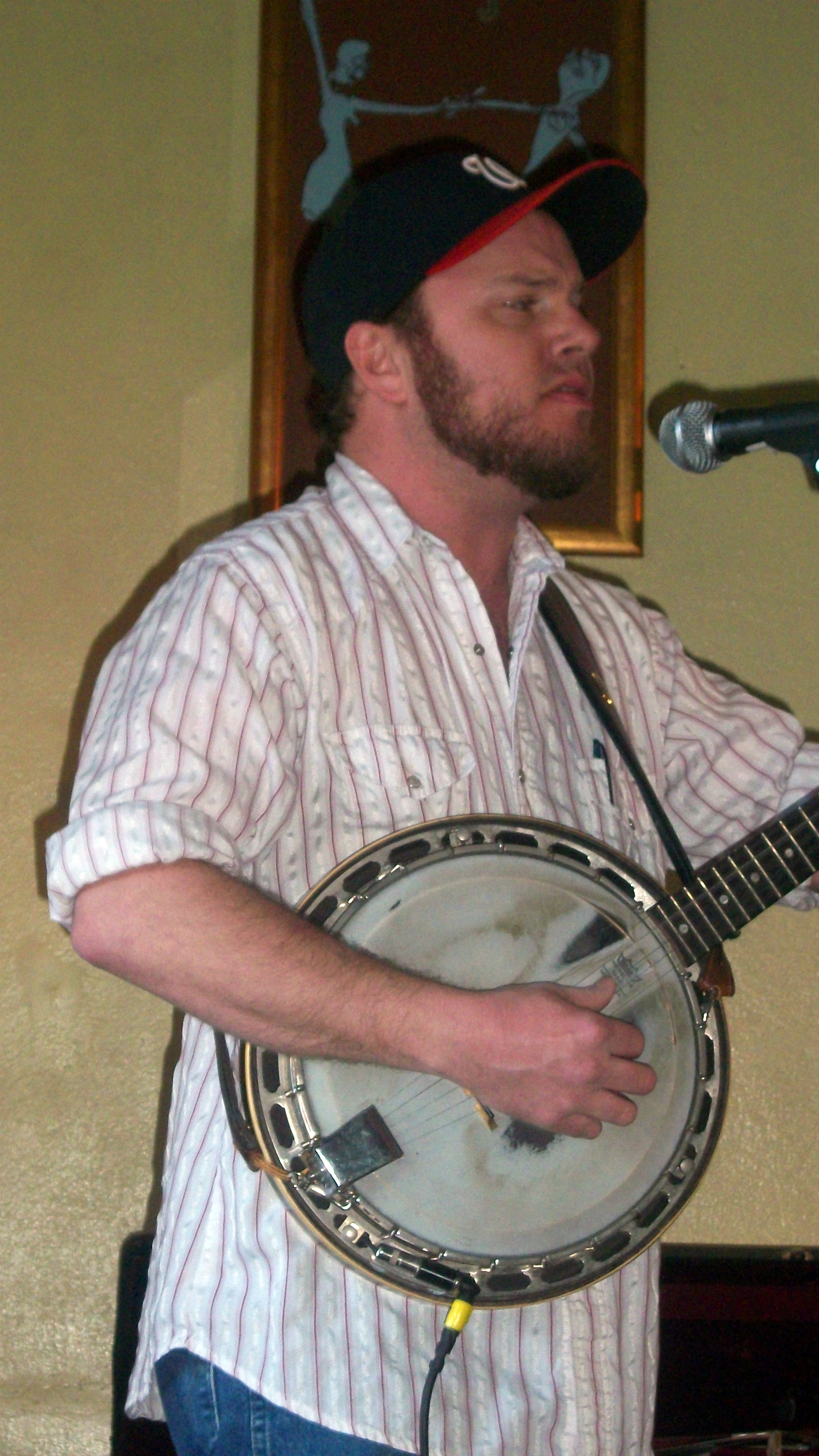 Chris 'Critter' Fuqua plays banjo with Ketch Secor, both of Old Crow Medicine Show, performing benefit show for Our Community Place at Little Grill Collective in Harrisonburg, Virginia on January 14, 2012.